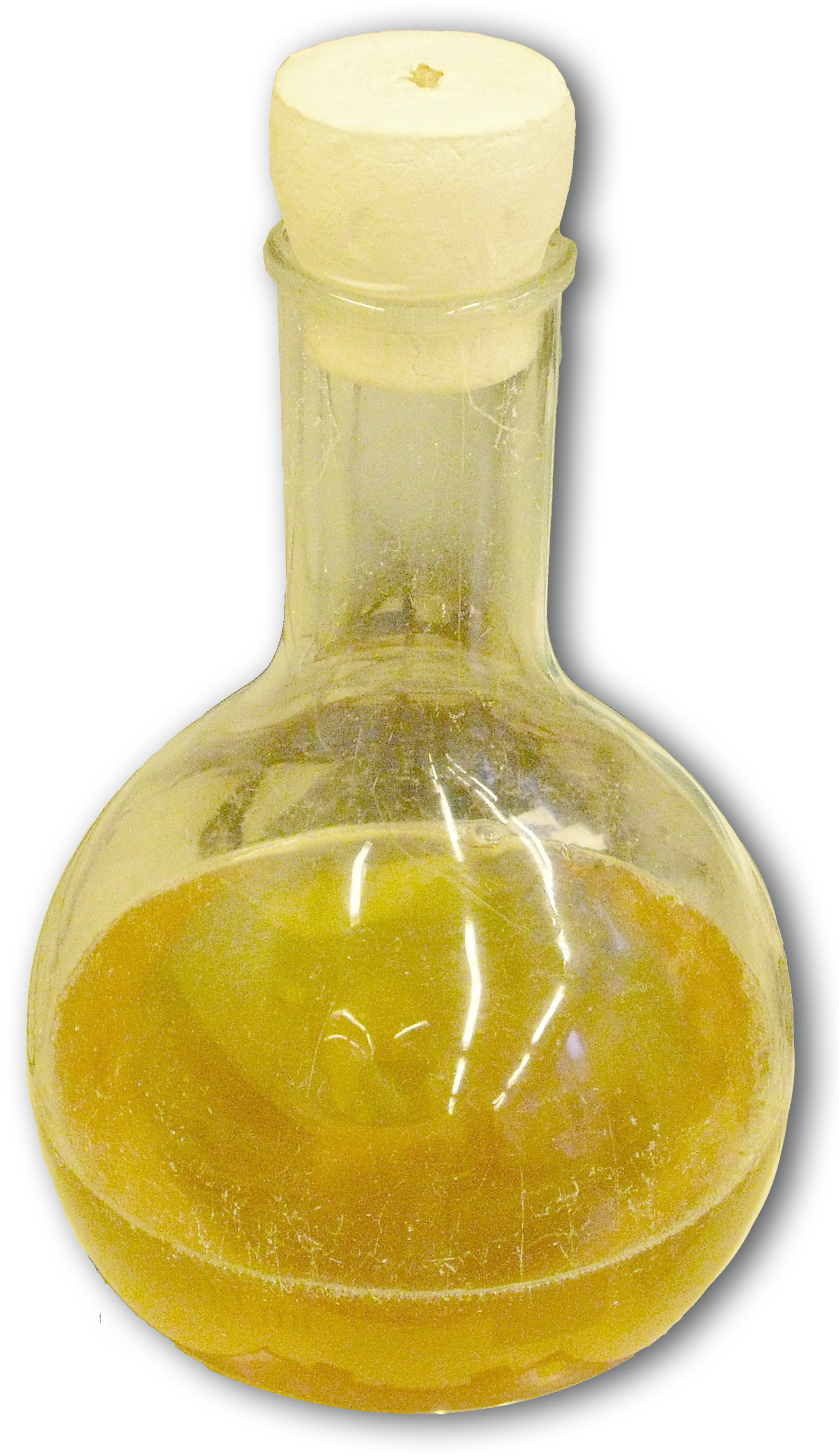 Steristoppers in use